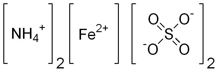 chemical structure of Mohr's salt